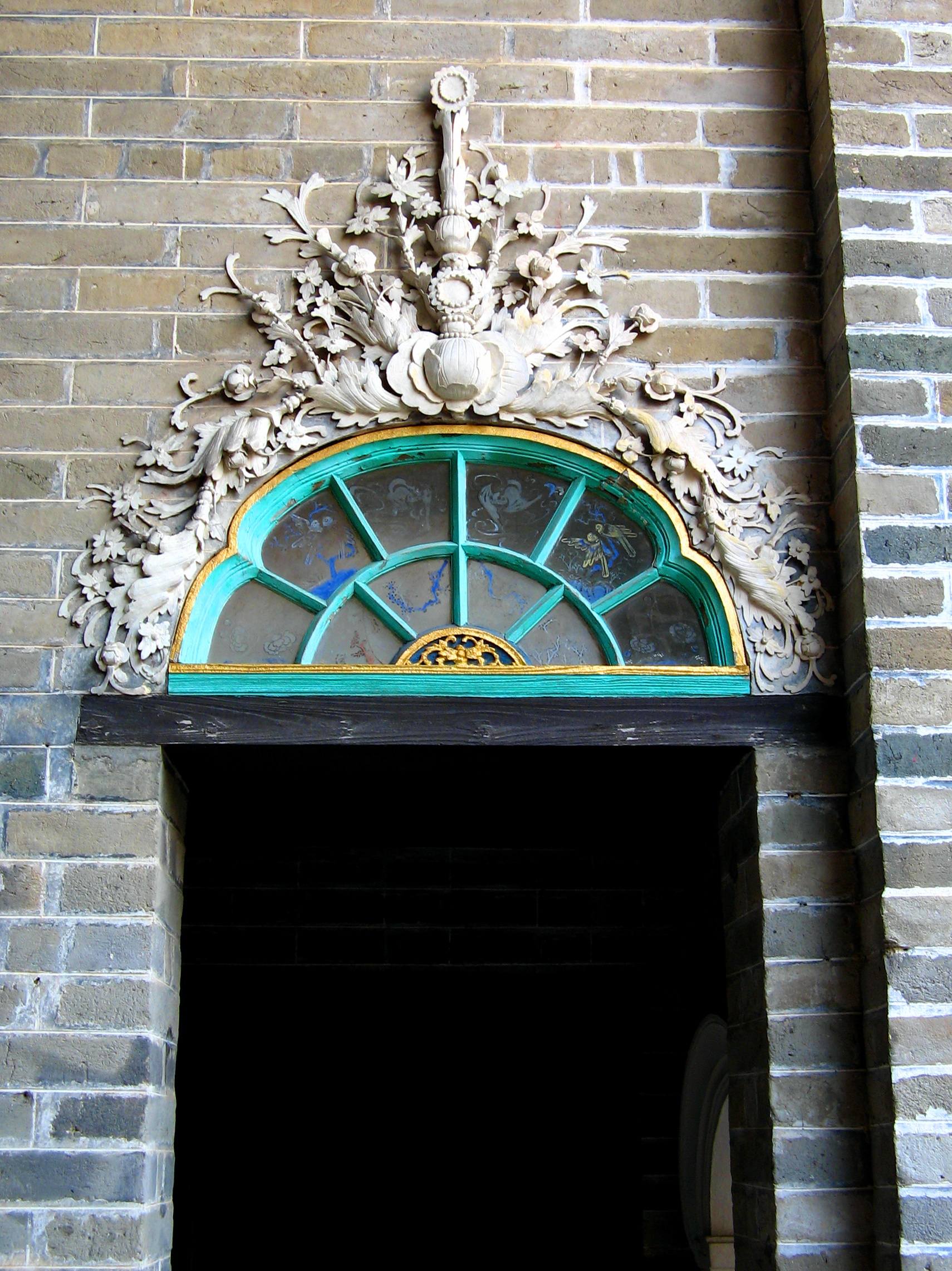 Dai Fu Tai Mansion in Yuen Long, New Territories, Hong Kong.